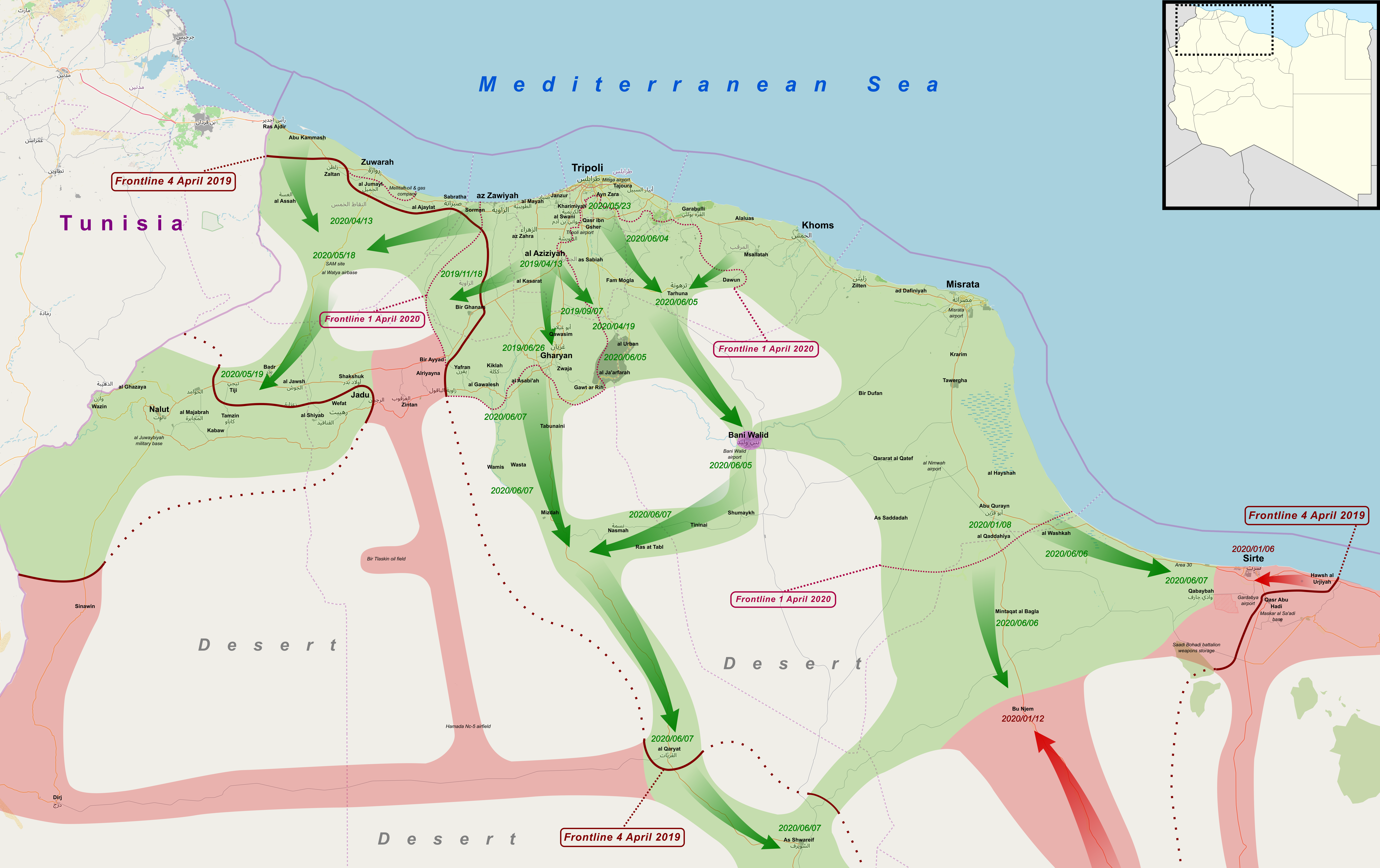 Map showing the Libyan National Army operation to retake Tripoli and the rest of Libya from the Government of National Accord and allies. The SVG file was too large to upload on Wikipedia so here is a PNG instead. Controlled by the Libyan National Army Controlled by the Government of National Accord Neutral area This map may be incomplete, and may contain errors. Don't rely solely on it for navigation.